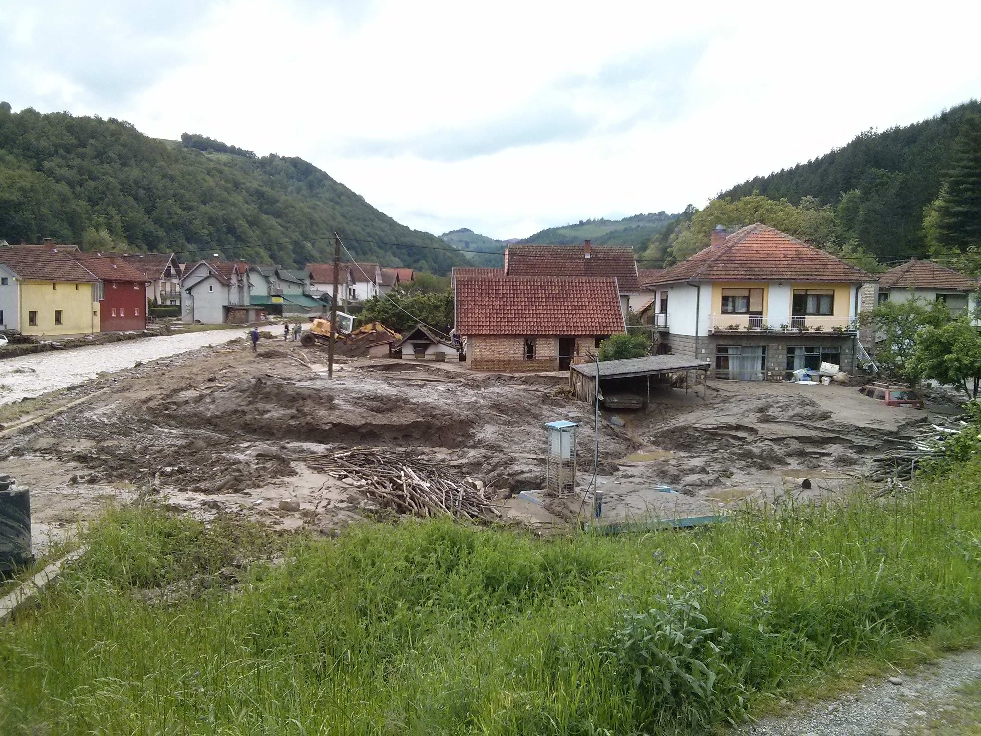 Floods in Krupanj - May 2014